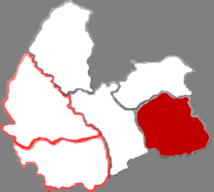 Location of Ying county in Shuozhou City, China